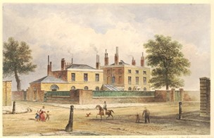 View of the house of John White, who was surveyor to the Duke of Portland, on New Road, opposite Devonshire Place, Marylebone, with the addition of the smaller house built by his son John White junior; a wall surrounding